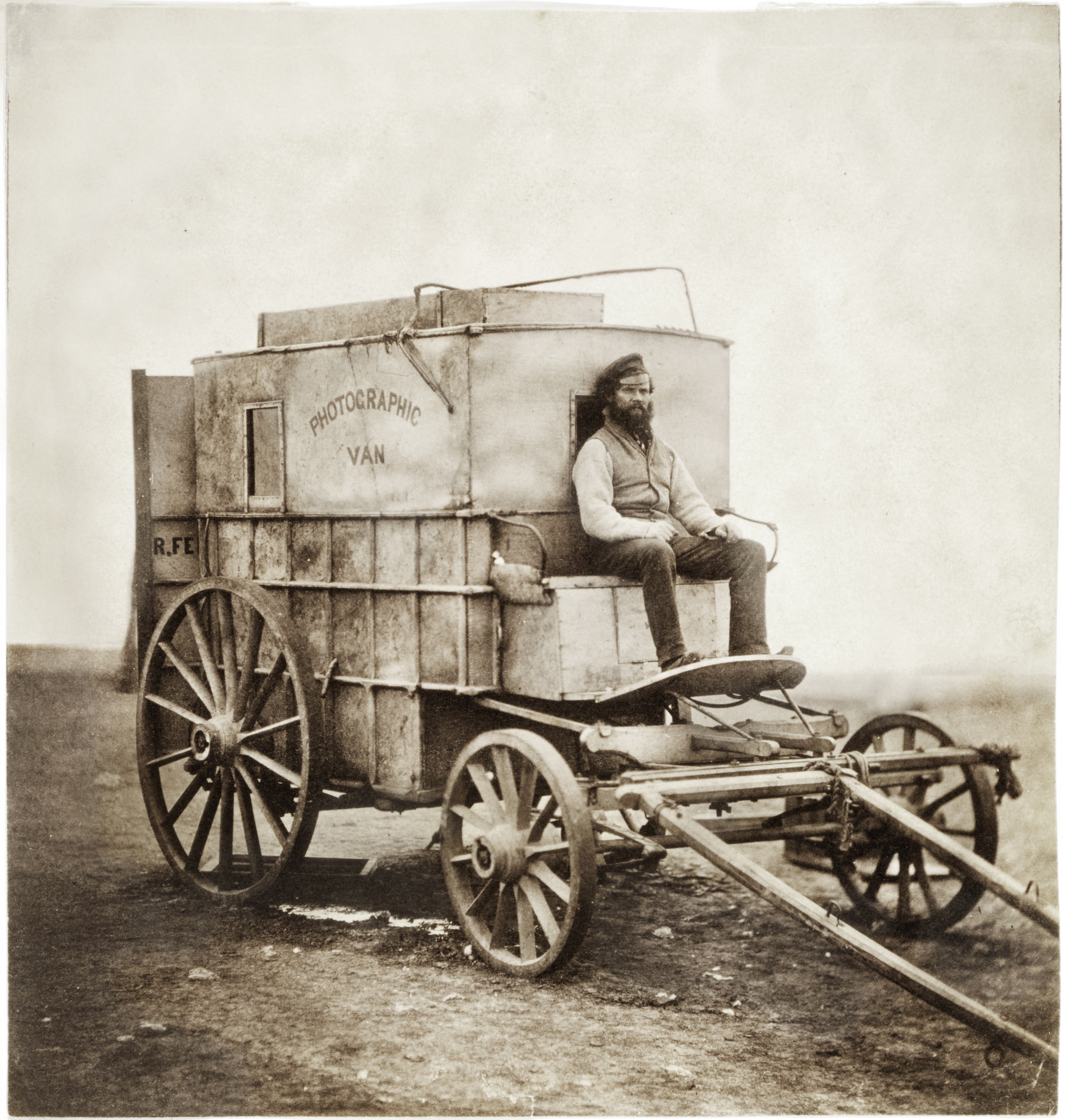 The artist's van Full-length portrait of Marcus Sparling, Roger Fenton's assistant, sitting on the carriage of the mobile darkroom. Salted paper; 17.5 × 16.5 cm.